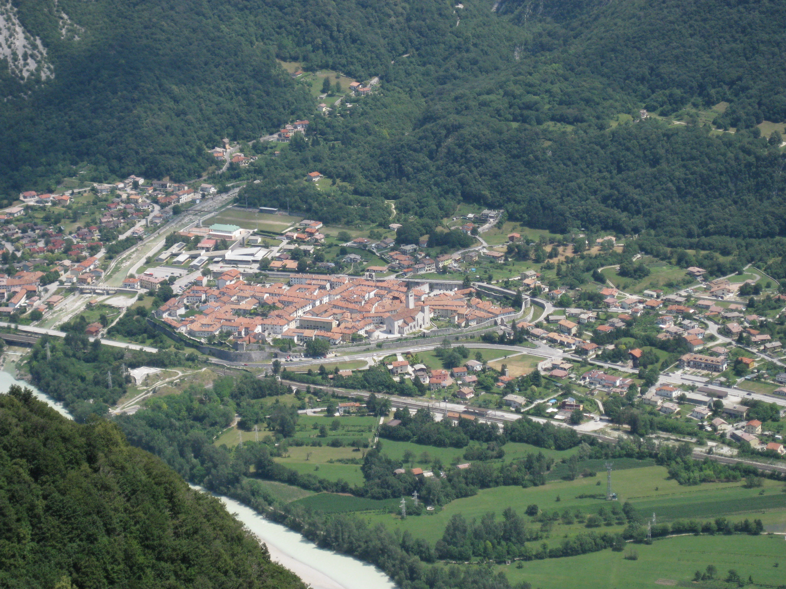 Arial view of Venzone from Mount San Simeone, zoom